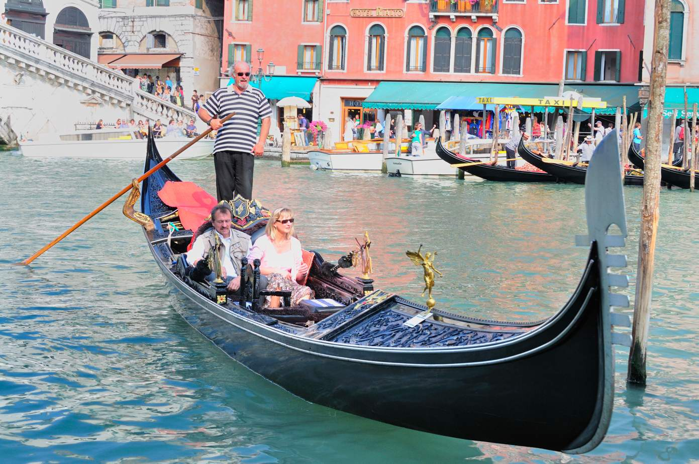 To see more Welcome. You are free to use all my photos for free. My photos are licensed under Creative Commons Attribution United States License for your legal protection. So you are FREE (as for beer) to copy, distribute, display, perform the work, and to make derivative works, including for commercial use. You may use any of my photos to repost in the Internet, make calendars or any other object, use it in other media production, print them for sale, etc... You do not need special permissions, because all possible permissions you might ever need are hereby granted. If you want to give credit, just give it to mike gnuckx. Enjoy. :-) night sunset dawn sea sicilia sicily sea bay summer roma rome beach travel vacation italia italy travel creative commons cc gnuckx nikon dolce gabbana etna free blog blogs blogger bloggers tumblr flikr venezia carnevale panoramio